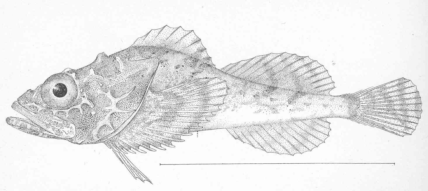 Dasycottus setiger Subject: Cottidae, Dasycottus Tag: Fish